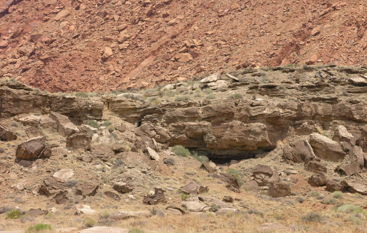 Photo taken by Daniel Mayer in late June 2005.